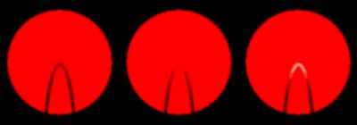 Disappearing filament Disappearing-Filament Pyrometer.